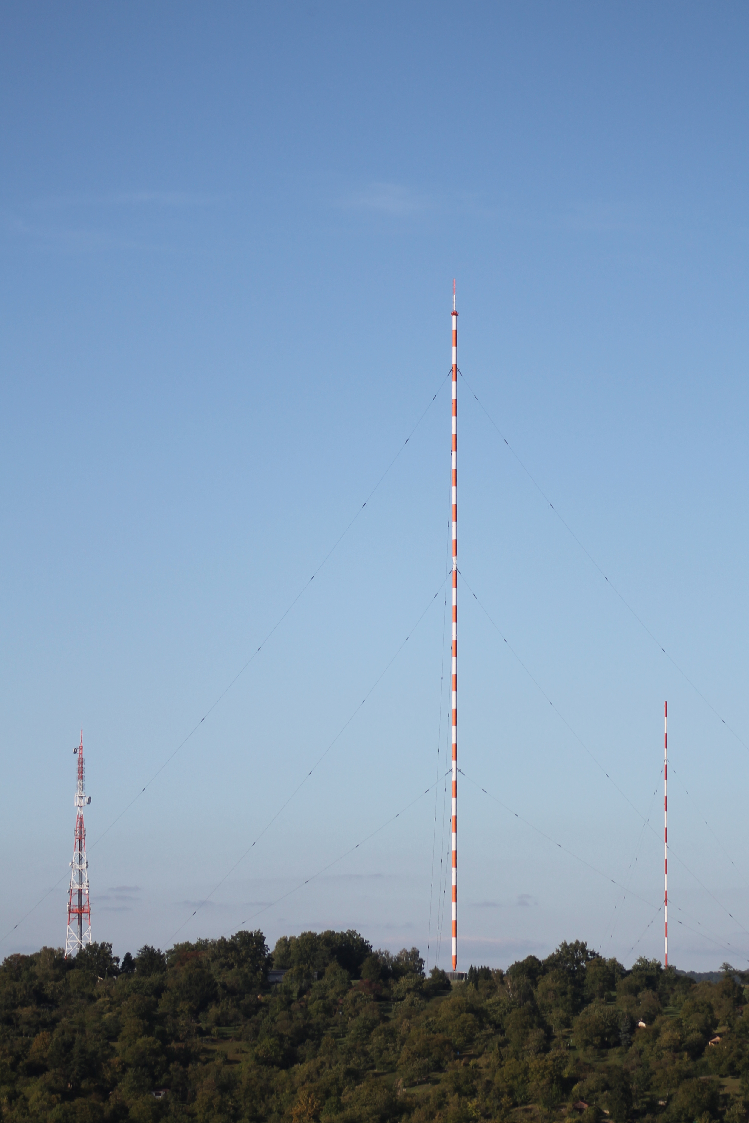 Muehlacker transmitter on September 15th, 2011